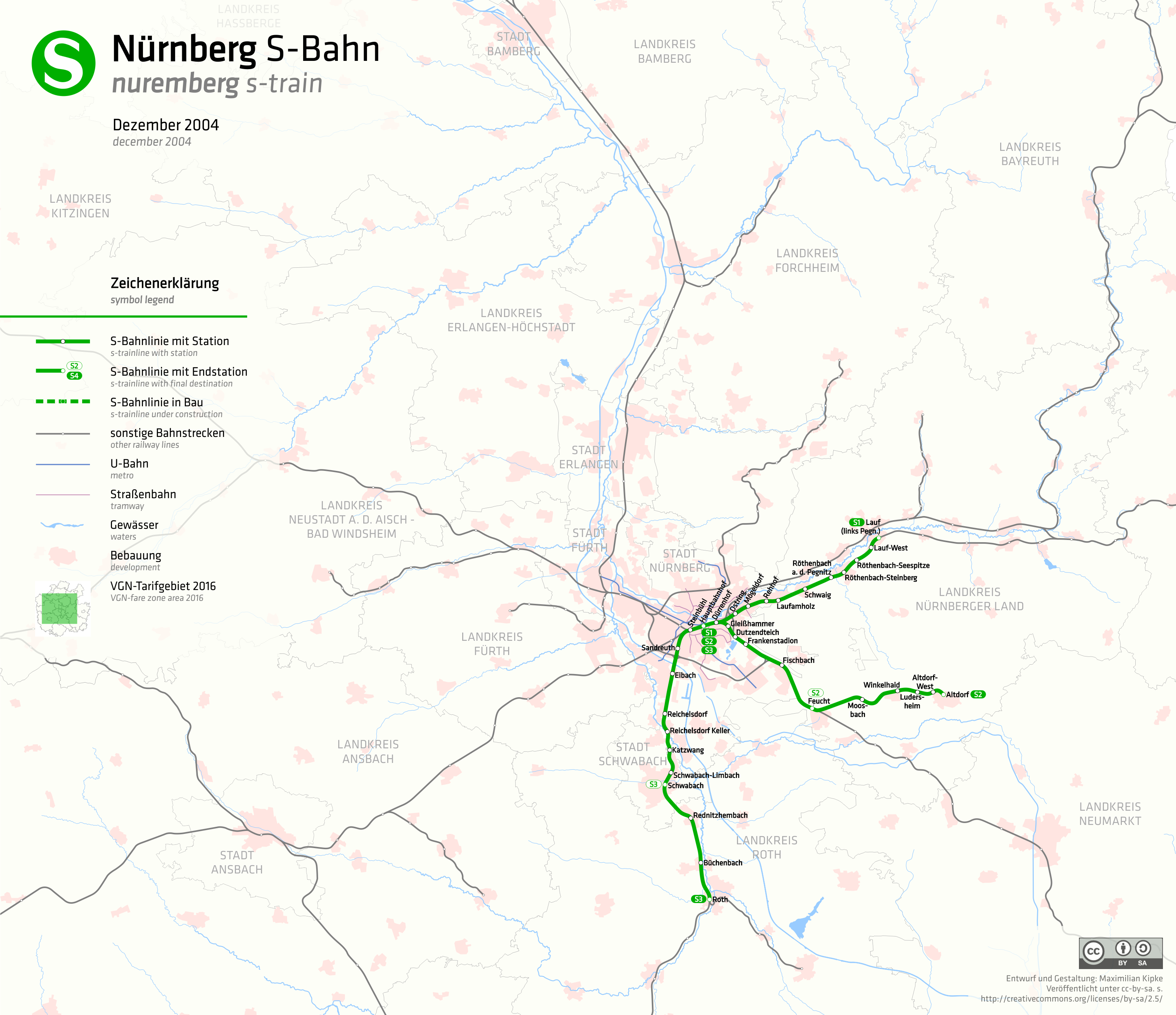 network of s-bahn nuremberg in 2004